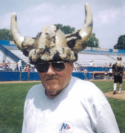 Norm Aldridge at a fundraising ballgame organized by Friends of Labatt Park